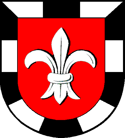 Coat of arms of the municipality Groß Grönau in Schleswig-Holstein, Germany.